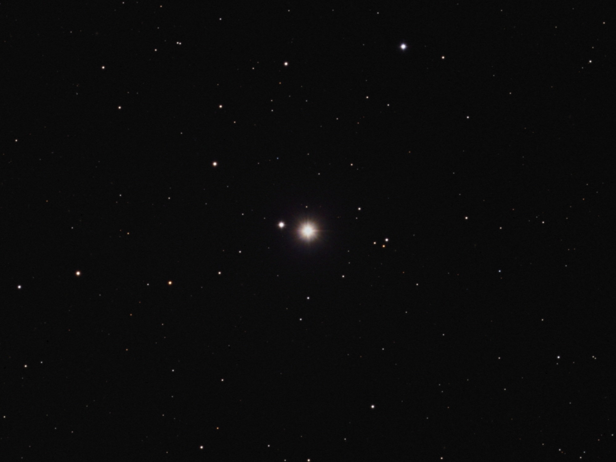 Delta Bootis in optical light